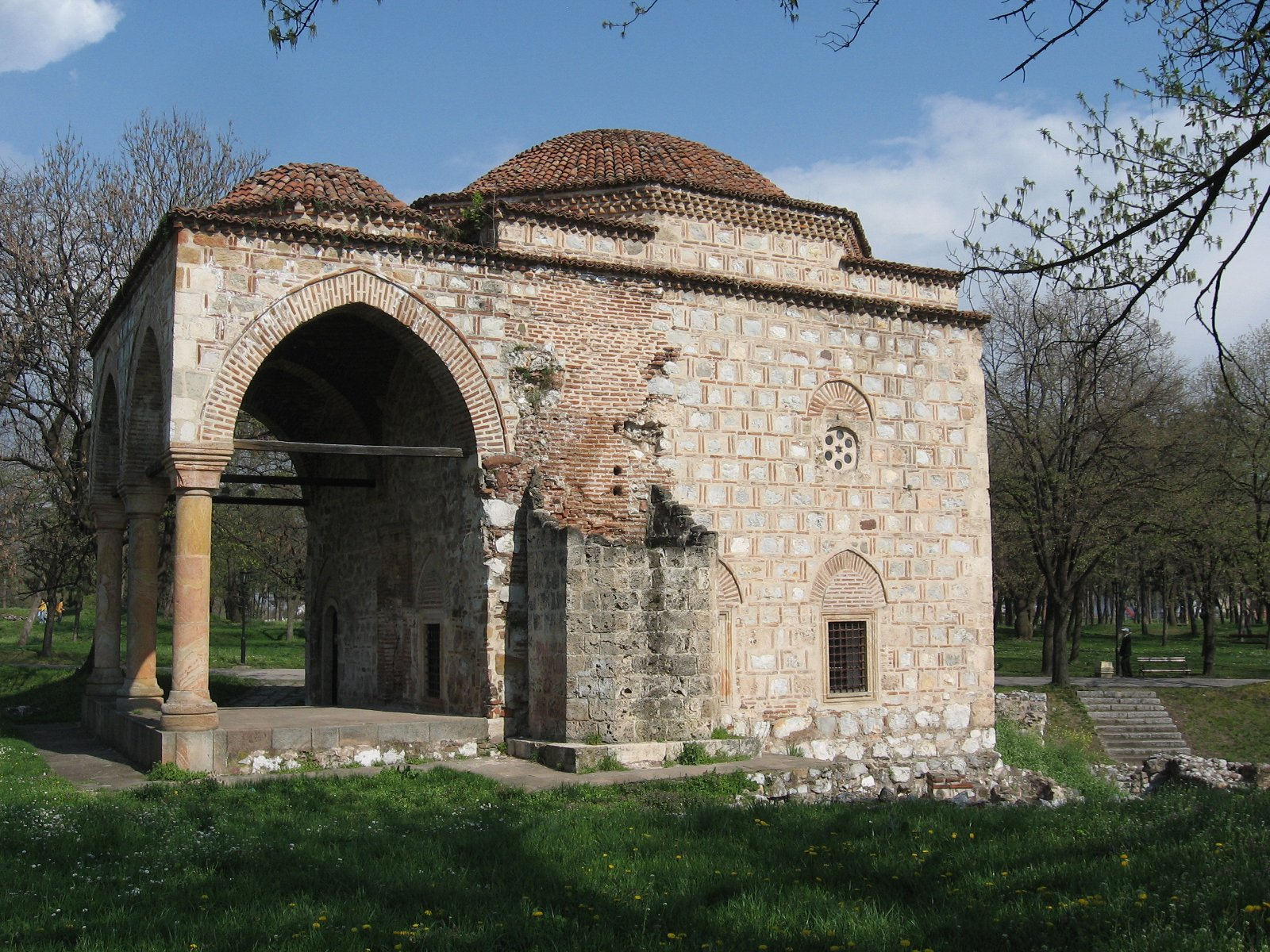 Former Bali-begova mosque (base of minaret is visible), today works as a gallery, in Niš fortress, Serbia.